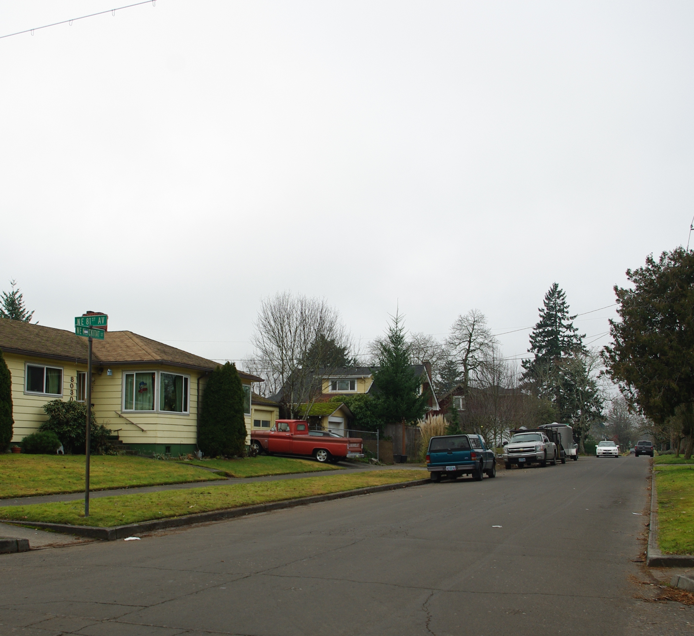 Northeast Klickitat Street at 81st Avenue in northeast Portland, Oregon.